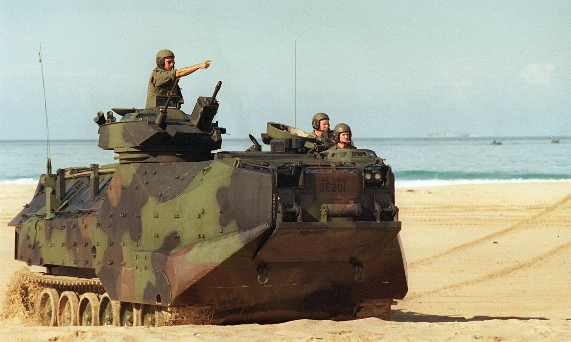 A U.S. Marine Corps Amphibious Assault Vehicle maneuvers on the beach during an amphibious landing on June 15, 1996, as part of RIMPAC '96. The amphibious assault at Pacific Missile Range Facility, Barking Sands, Hawaii, is being conducted by 11th Marine Expeditionary Unit, Camp Pendleton, Calif., and involves Navy and Marine air, ground and sea forces for training as a combined amphibious assault force. More than 44 ships, 200 aircraft and 30,000 soldiers, sailors, Marines, airmen and Coast Guardsmen are involved in the exercise. The purpose of RIMPAC '96 is to improve coordination and interoperability of combined and joint forces in maritime tactical and theater operations. Australia, Canada, Chile, Japan, the Republic of Korea and the U.S. are participating in the exercise.